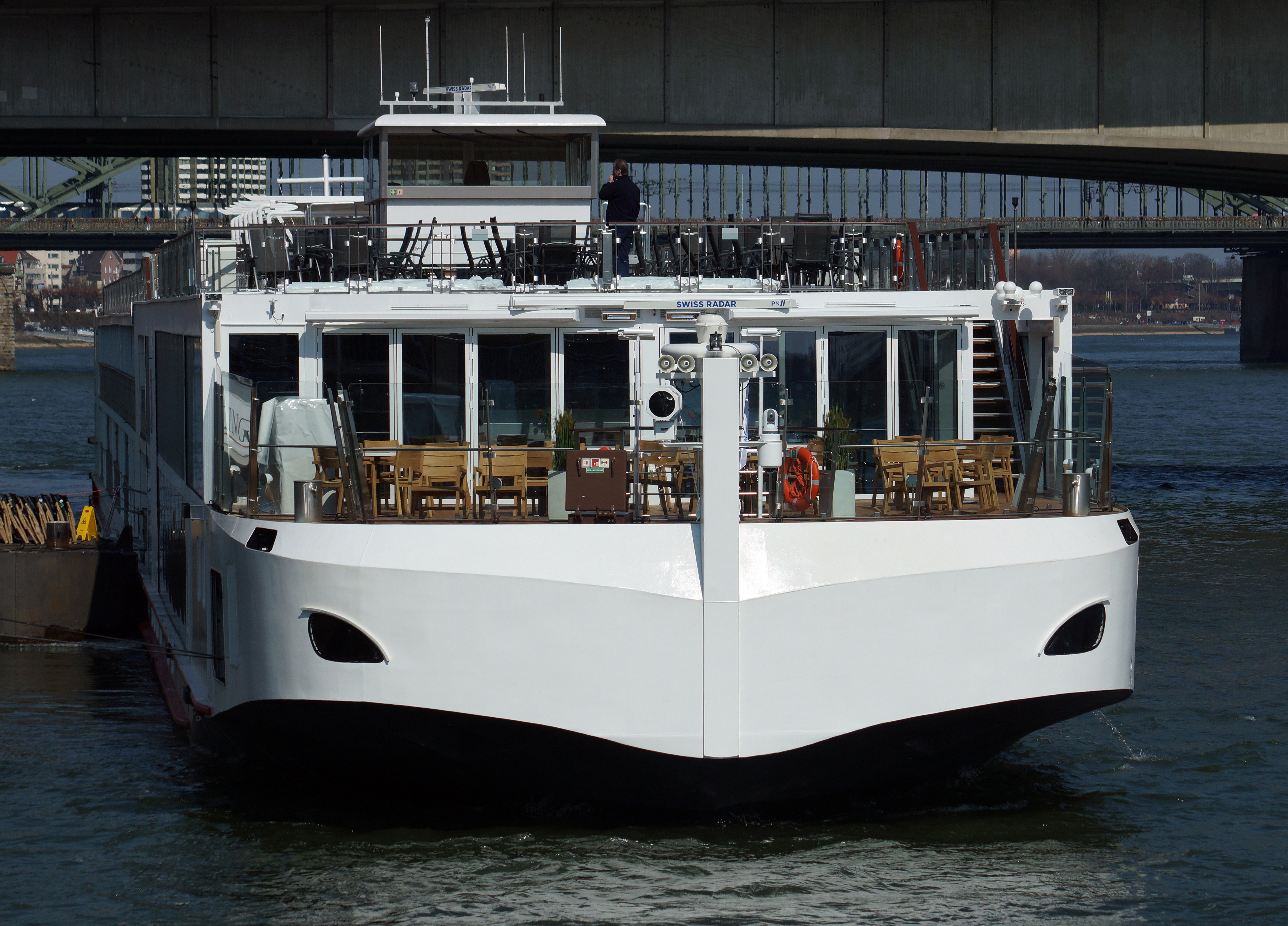 River cruise ship Viking Tor in Cologne.